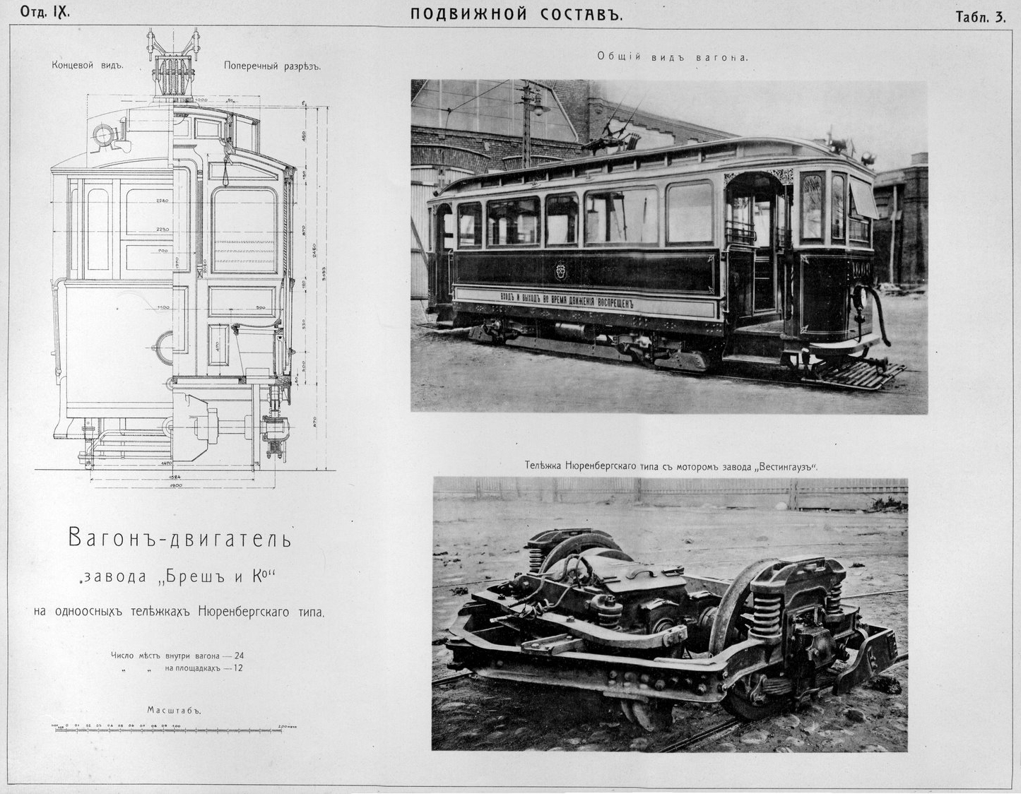 The engine vehicle by Brush-factory